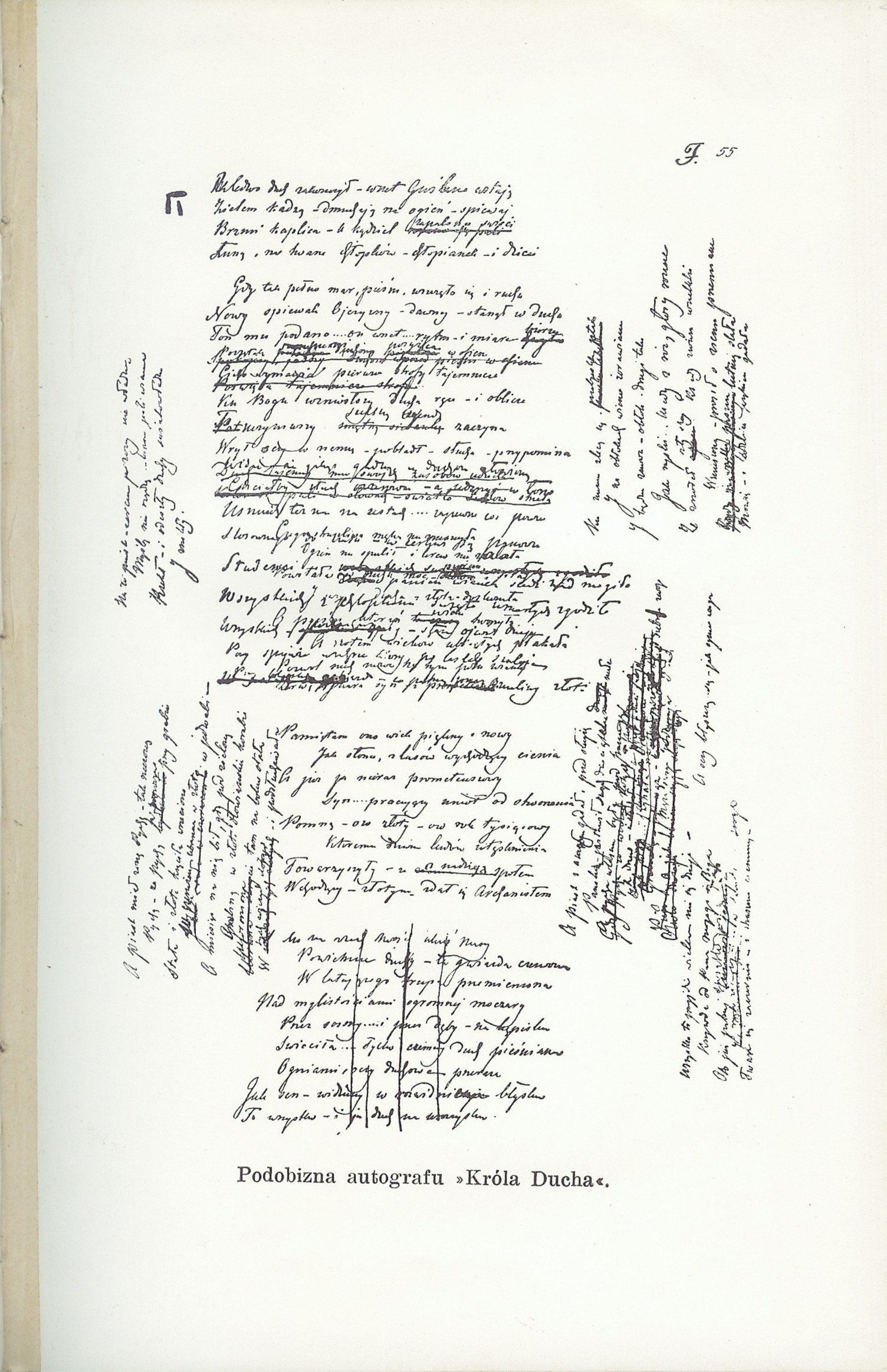 Autograph of Juliusz Słowacki's Król Duch from the 1909 edition of his complete works. Scan downloaded from